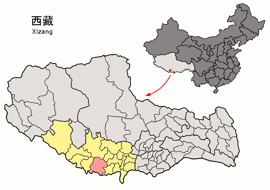 Location of Tingri County (pink) and Xigazê Prefecture (yellow) within Tibet Autonomous Region (Xizang) of China